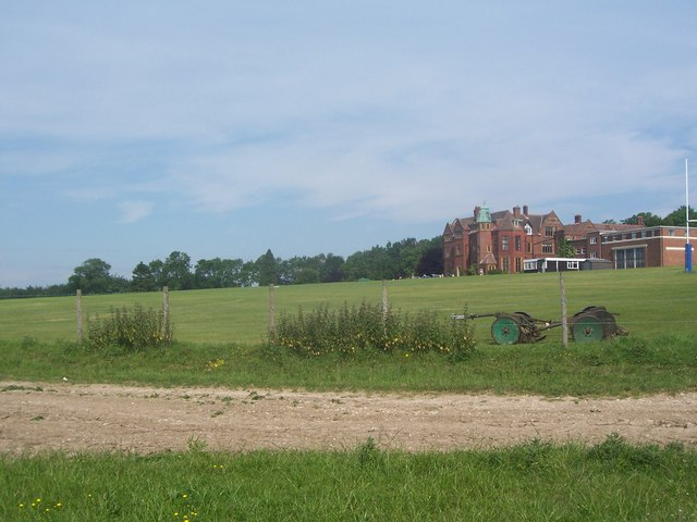 Ditcham Park School and grounds. A private school outside Petersfield, on the south side of the South Downs